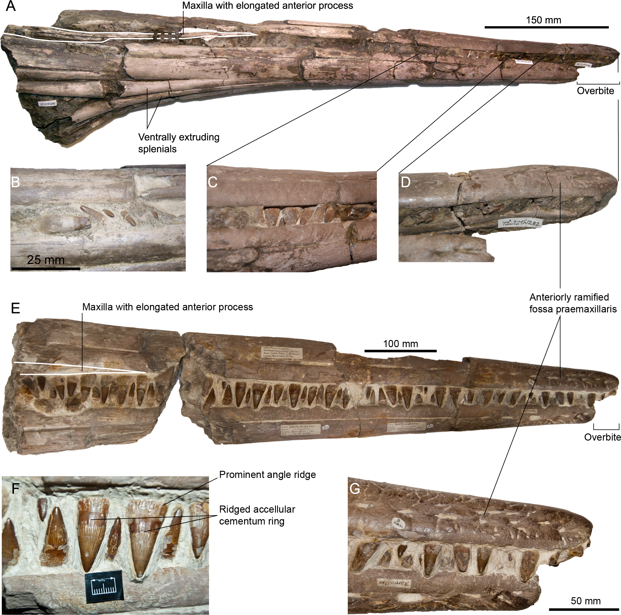 Rostra referred to Pervushovisaurus campylodon (Carter, 1846a). (A–D) CAMSM TN282, a partial rostrum possibly from a juvenile specimen. (A) Ventrolateral view. (B–C) Details of the teeth. (D) Detail of the premaxillary overbite. (E–F) CAMSM B20671a, a partial rostrum of a large specimen. (E) Lateral view. (F) detail of the mid-snout teeth. (G) Detail of the premaxillary overbite.